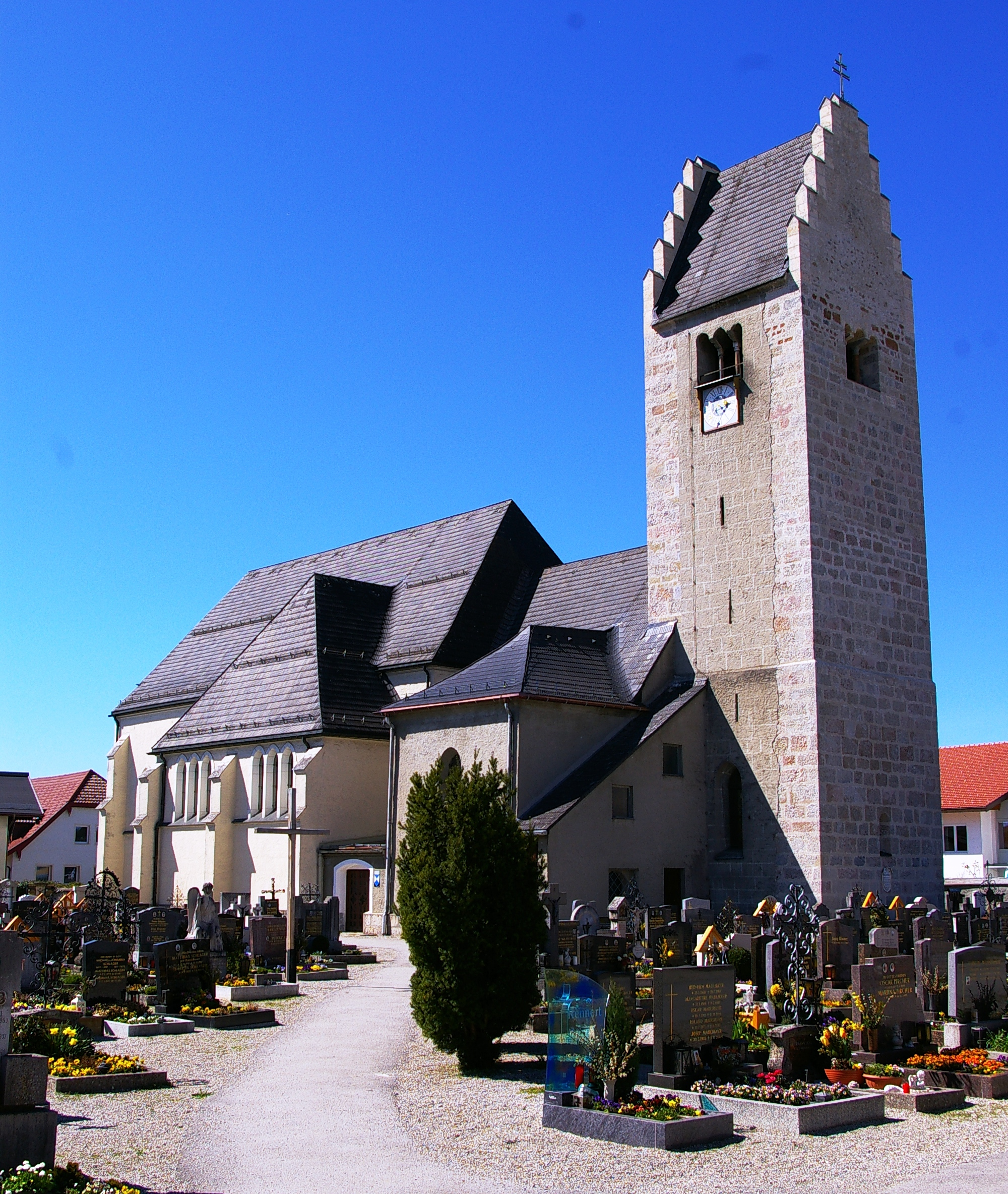 parish church Lamprechtshausen, Salzburg Austria